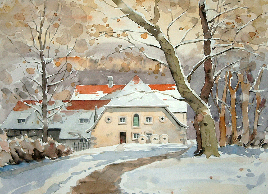 Upper Mill in Detmold, Germany: View from 1950.